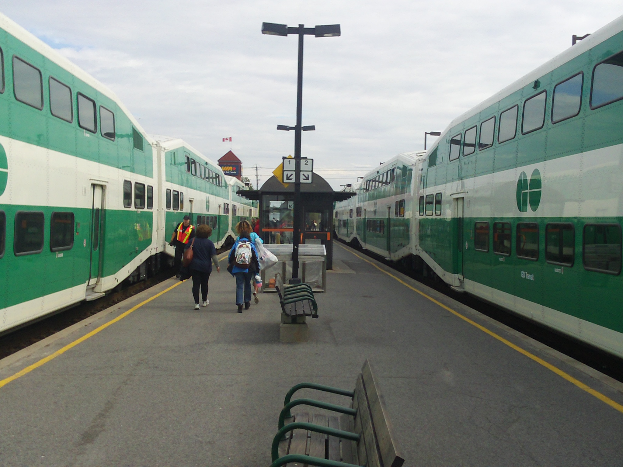 GO Transit platforms at the railway station in Oshawa, Ontario.